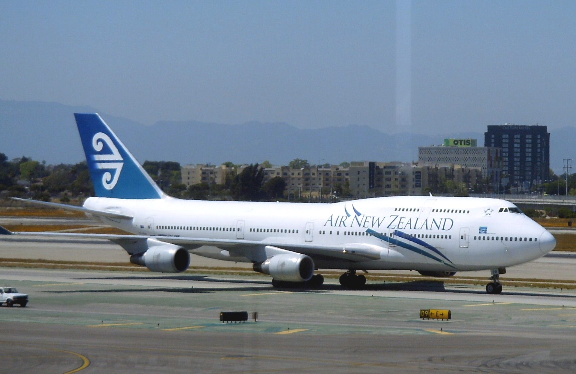 Air New Zealand 747 at Los Angeles airport